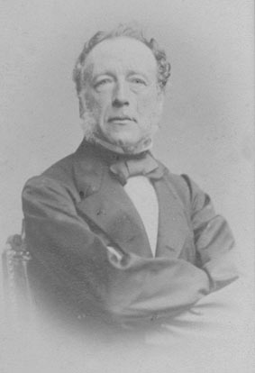 Image of Albertus Jacobus Duymaer van Twist (1809-1887), Governor-General of the Dutch East Indies from 1851 till 1856